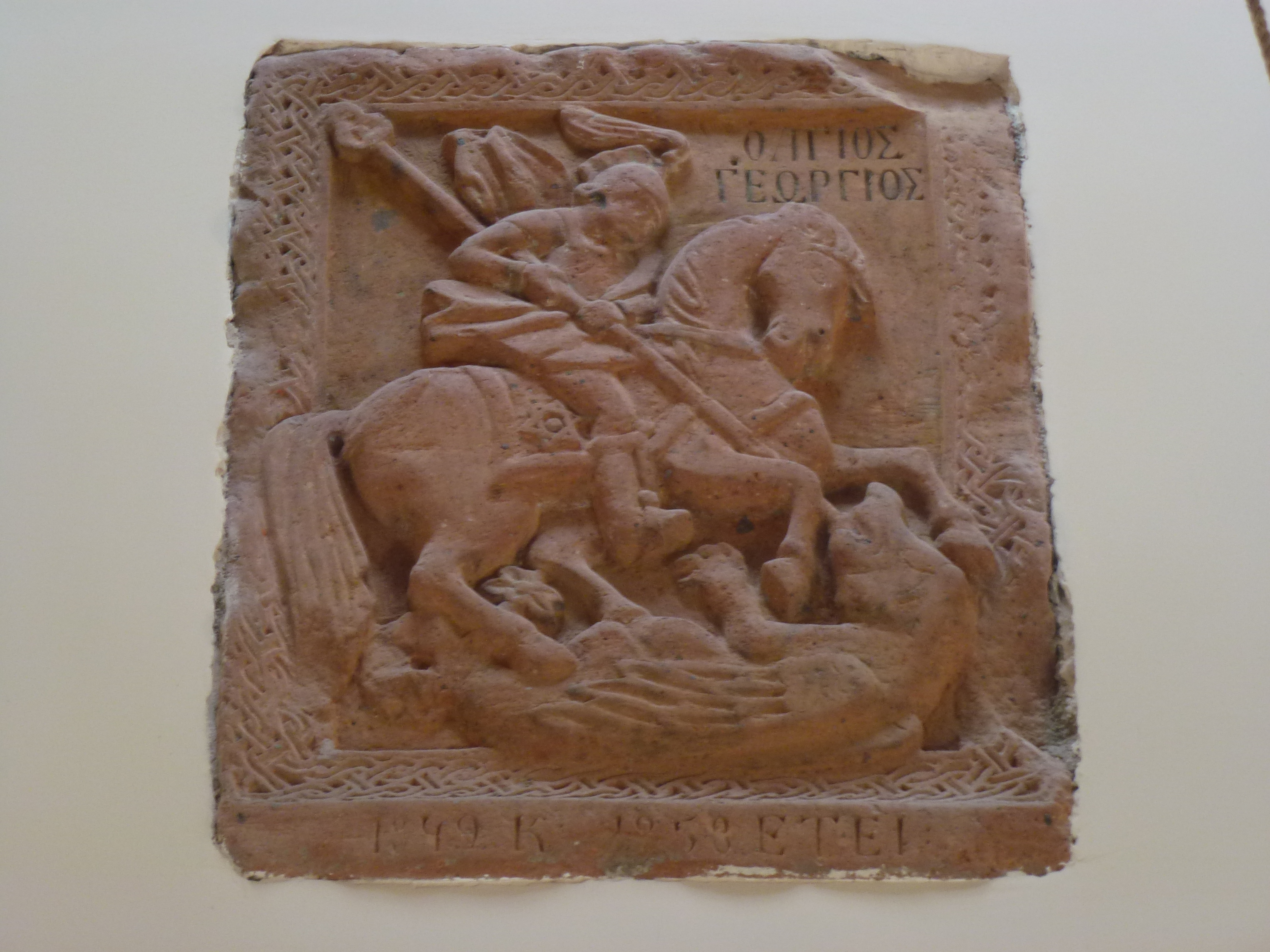 Sunt Georg bas-relief from Sant Georg church Gyumri